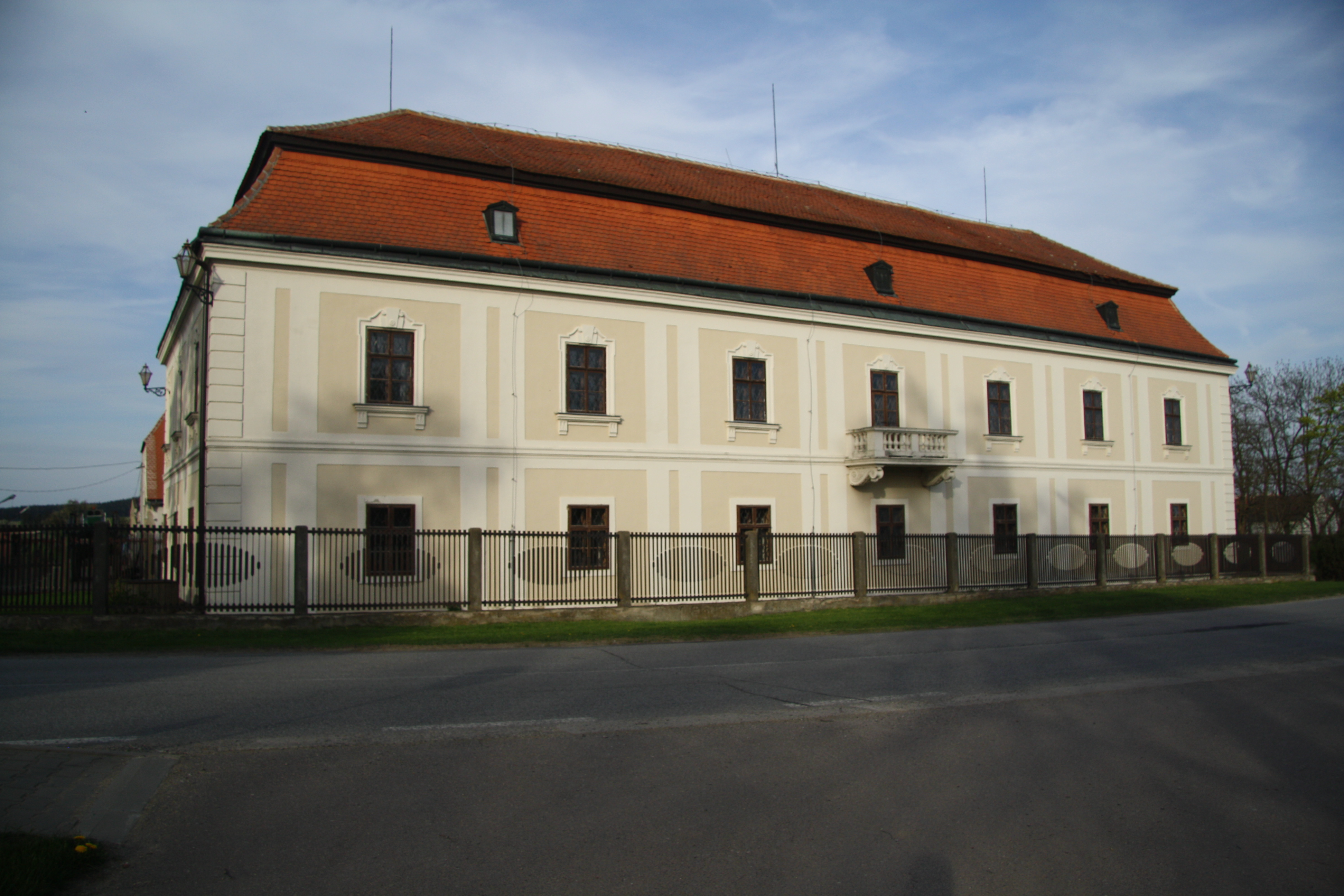 Litohoř Castle in Litohoř, Třebíč District.